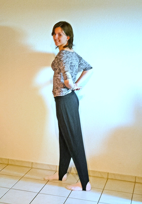 Stirrup Pants